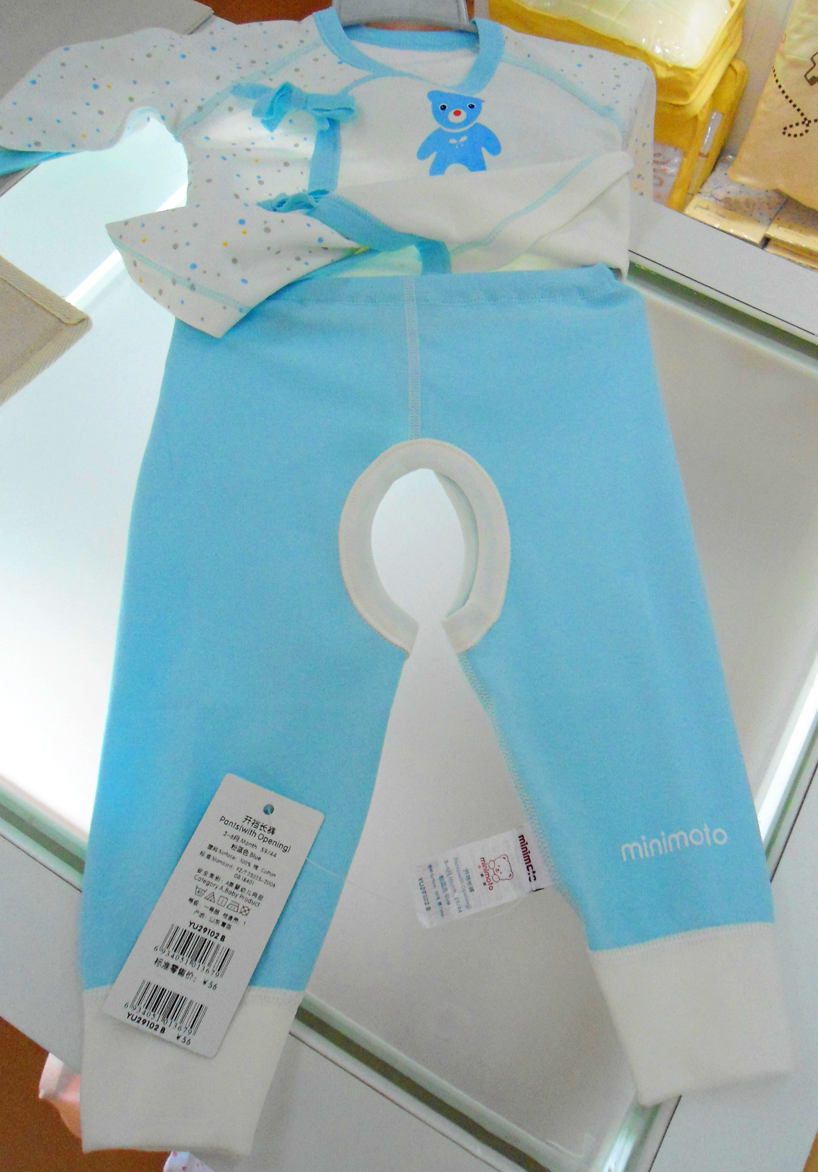 Open-crotch pants - for 3 to 6-month-olds, as sold in Haikou City, Hainan Province, China.